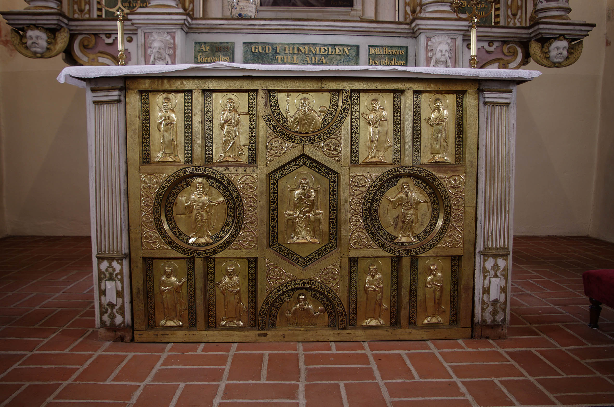 From Lyngsjö church, Scania, Sweden